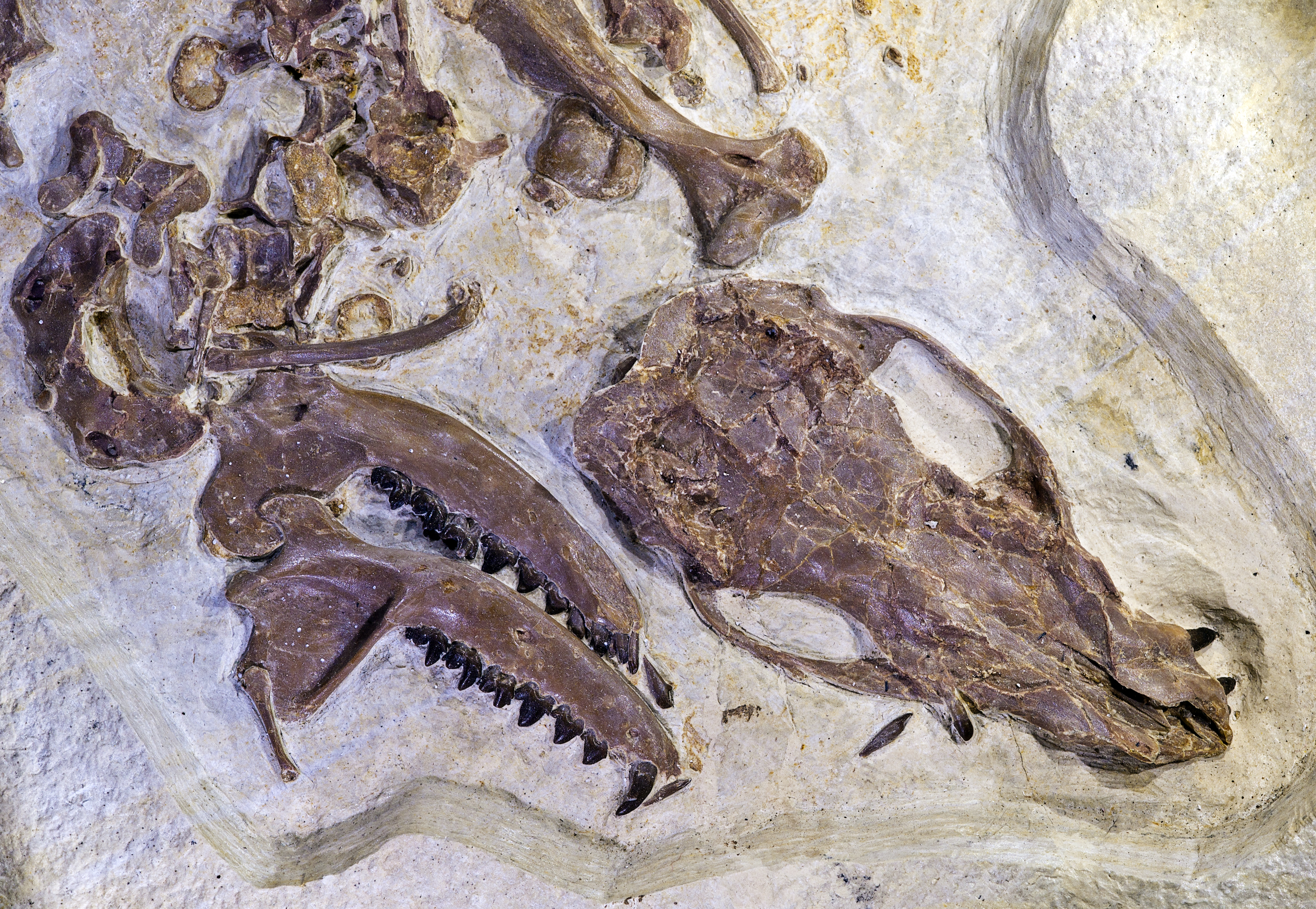 Palaeosinopa sp. (extinct family of semi-aquatic, placental mammals) Skull and mandibles. Locality : Green river formation Wyoming USA Stage: Eocene